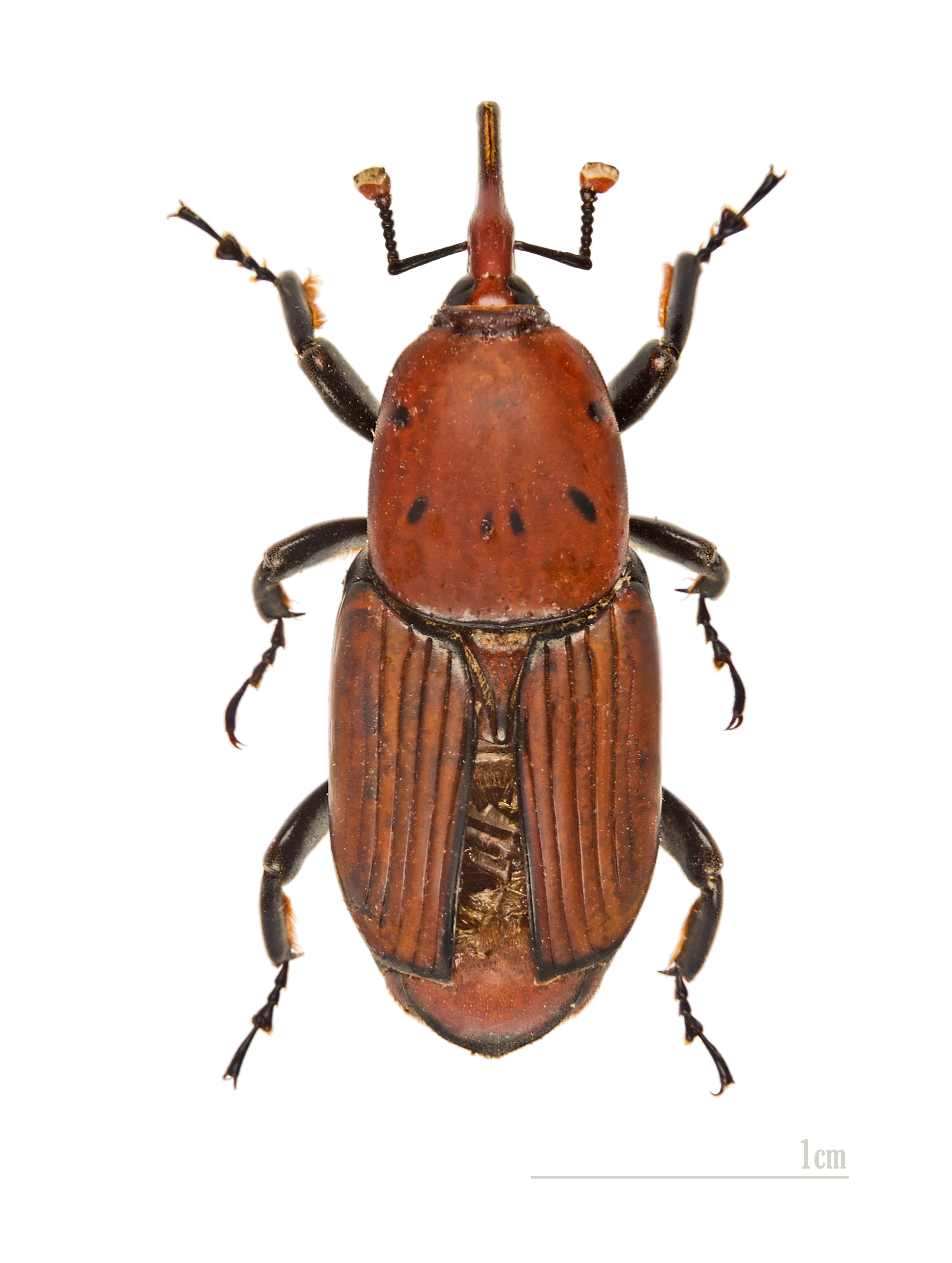 red palm weevil - male - Dorsal side Locality: La Croix-Valmer, Var, Provence-Alpes-Côte d'Azur, France